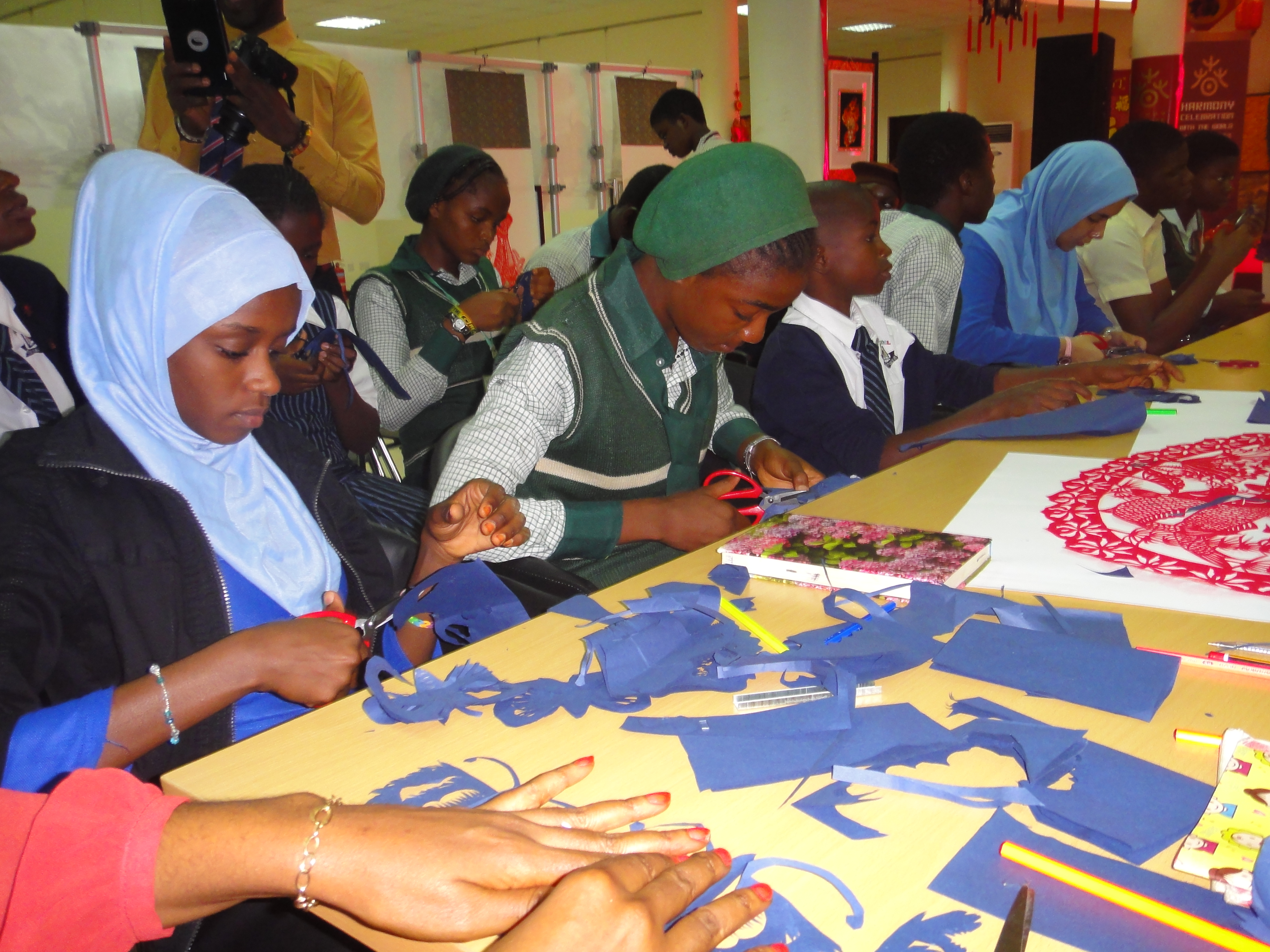 students from several schools in the capital city of Nigeria coverge at the chinese cultural centre in Abuja to learn the craft of paper cutting designs from a renowned chinese paper cutting artist. This is an image of "African people at work" from Nigeria